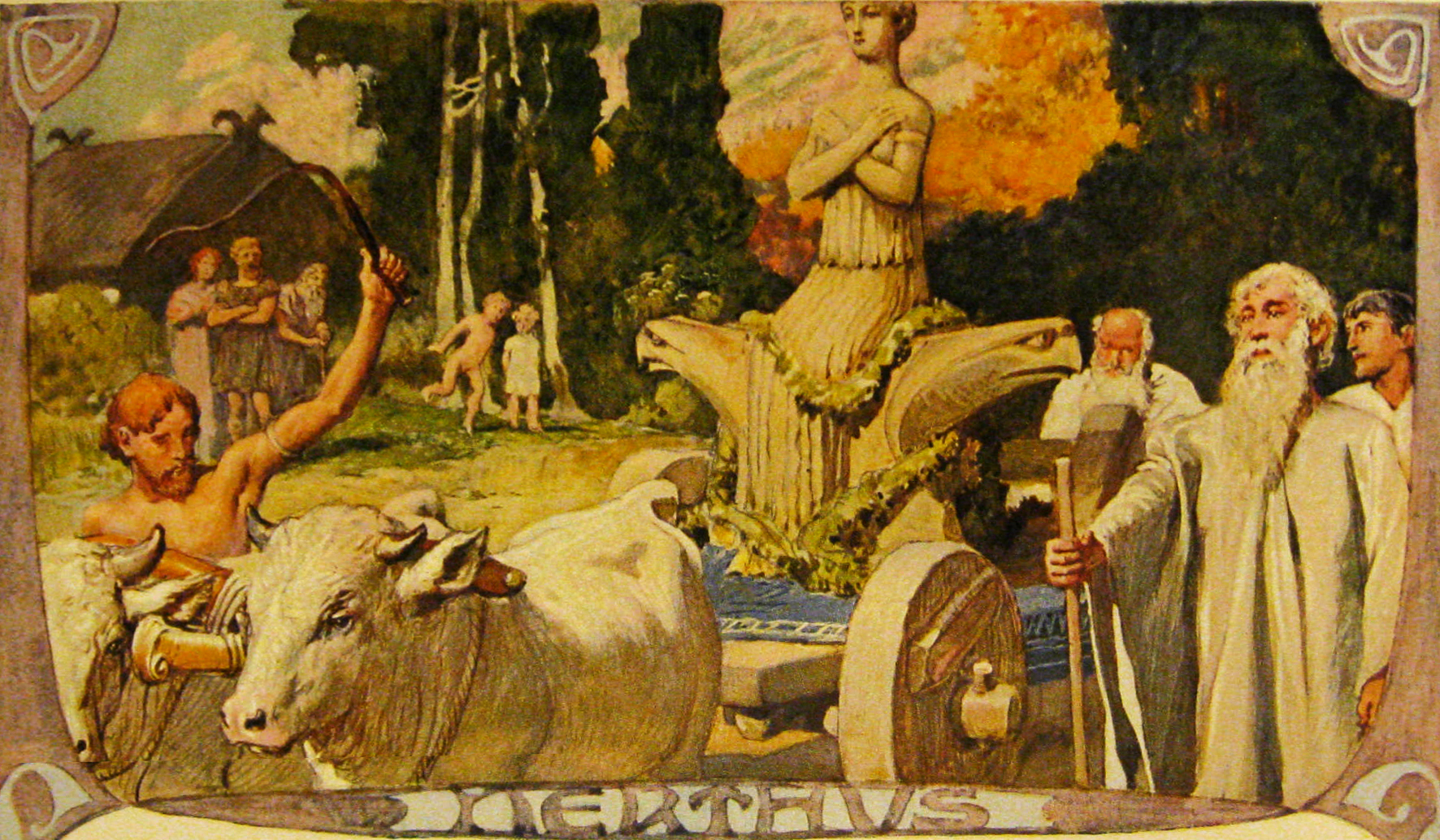 Spectators watch as the processional wagon of the Germanic goddess Nerthus moves along, inspired by Tacitus' description of the Germanic custom in his first century AD work Germania.